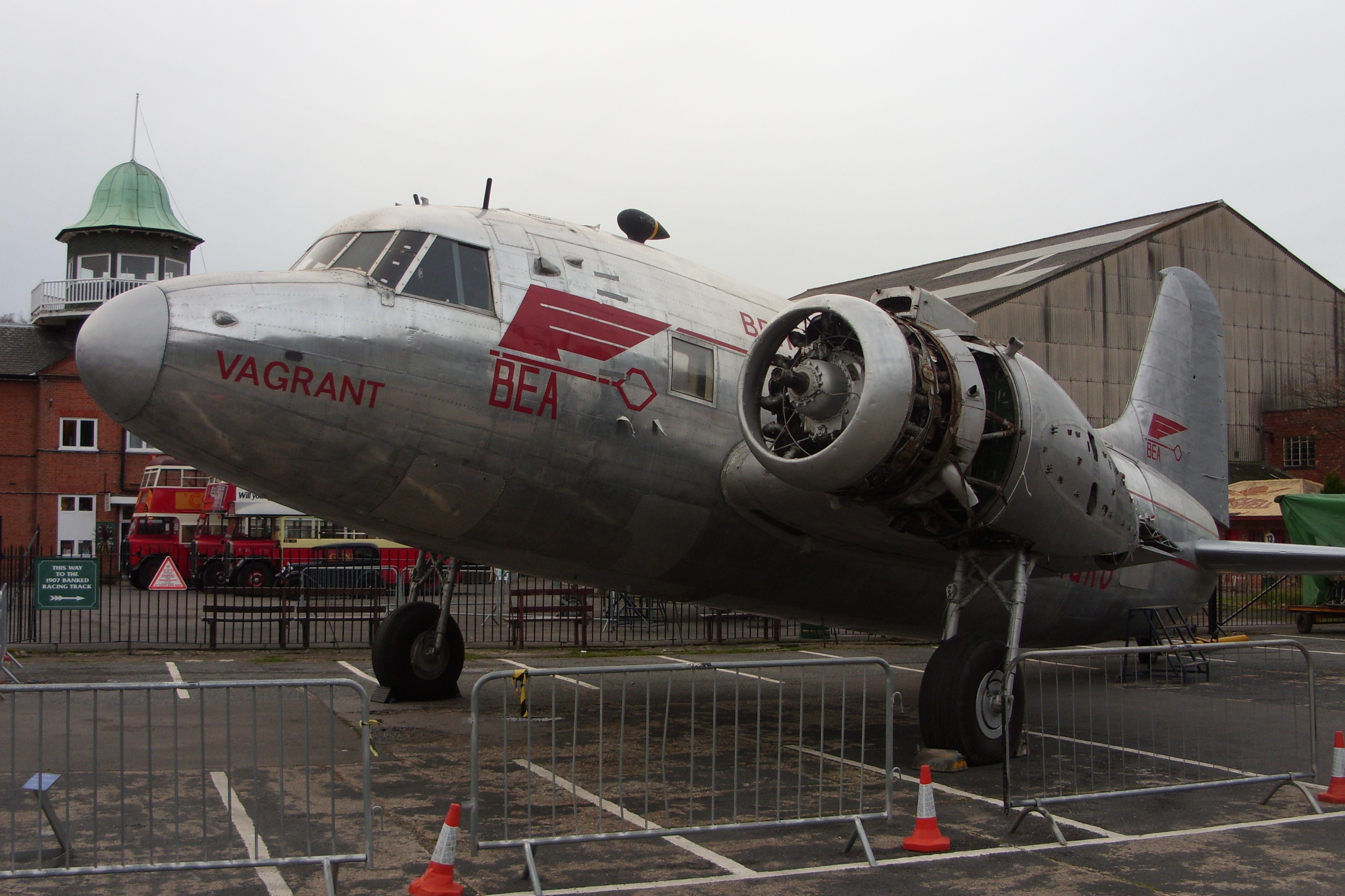 Vickers Viking twin-engined airliner under restoration at the Brooklands Museum, Surrey England